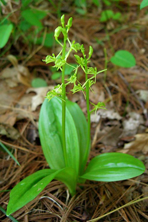 Liparis loeselii (L.) L.C. Rich. Common Name: Bog Twayblade Certainty: positive (notes) Location: Southern Appalachians; Smokies; CabinCove Date: 20060609